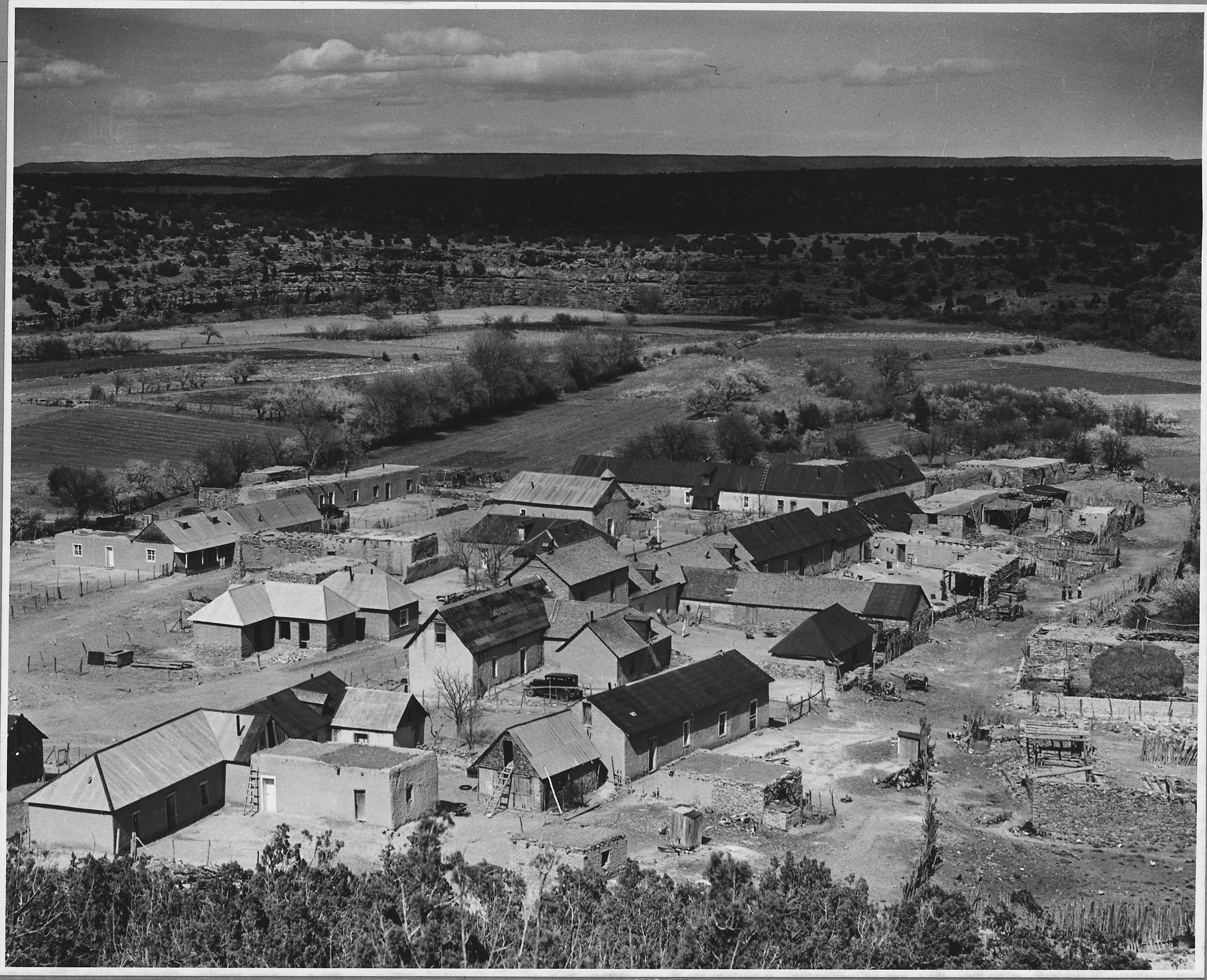 Scope and content: Full caption reads as follows: El Cerrito, San Miguel County, New Mexico. The village of El Cerrito is set in a land pocket cut out of the mesa by the Pecos river. Here the twisting and meandering of the stream has made an almost circular valley enclosed by steep banks and cliffs. There is just room for the village - some thirty odd houses of stone and adobe - and a few small fields that produce most of what is grown by the villagers. All the other fields must be dry farmed. The land in the valley is rich and well watered, but there is not enough of it.